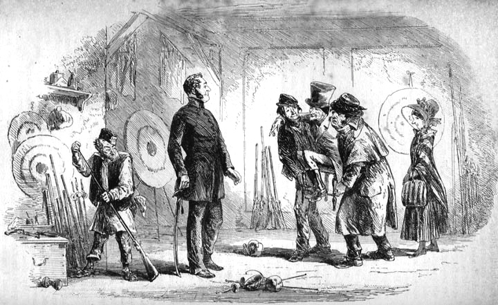 Visitors to the Shooting Gallery by "Phiz" (Hablot Knight Browne) for Bleak House, p. 261 (ch. 26, "Sharpshooters"). 4 3/16 x 8 9/16 inches.